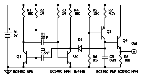 Sawtooth oscillator with a small-pulse width astable multivibrator periodically shorting a capacitor, a constant current source and an emitter follower output stage